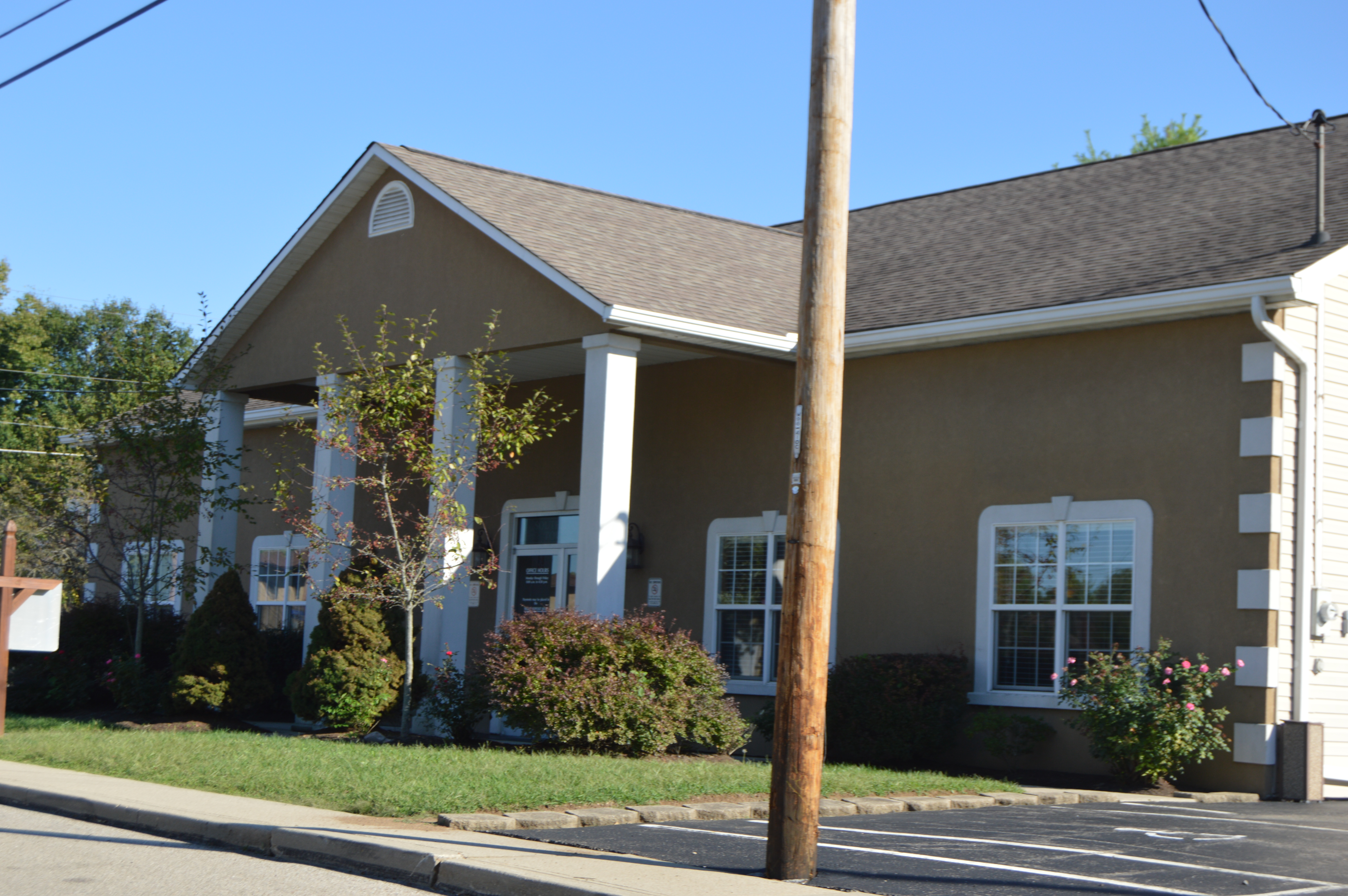 Front of the South Lebanon village hall, located at the intersection of High Street and Forest Avenue in South Lebanon, Ohio, United States.